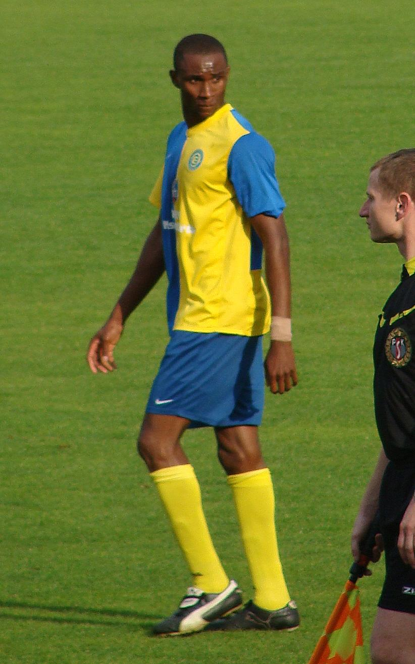 Nigerian football player Kelechi Iheanacho as playing for Elana Toruń